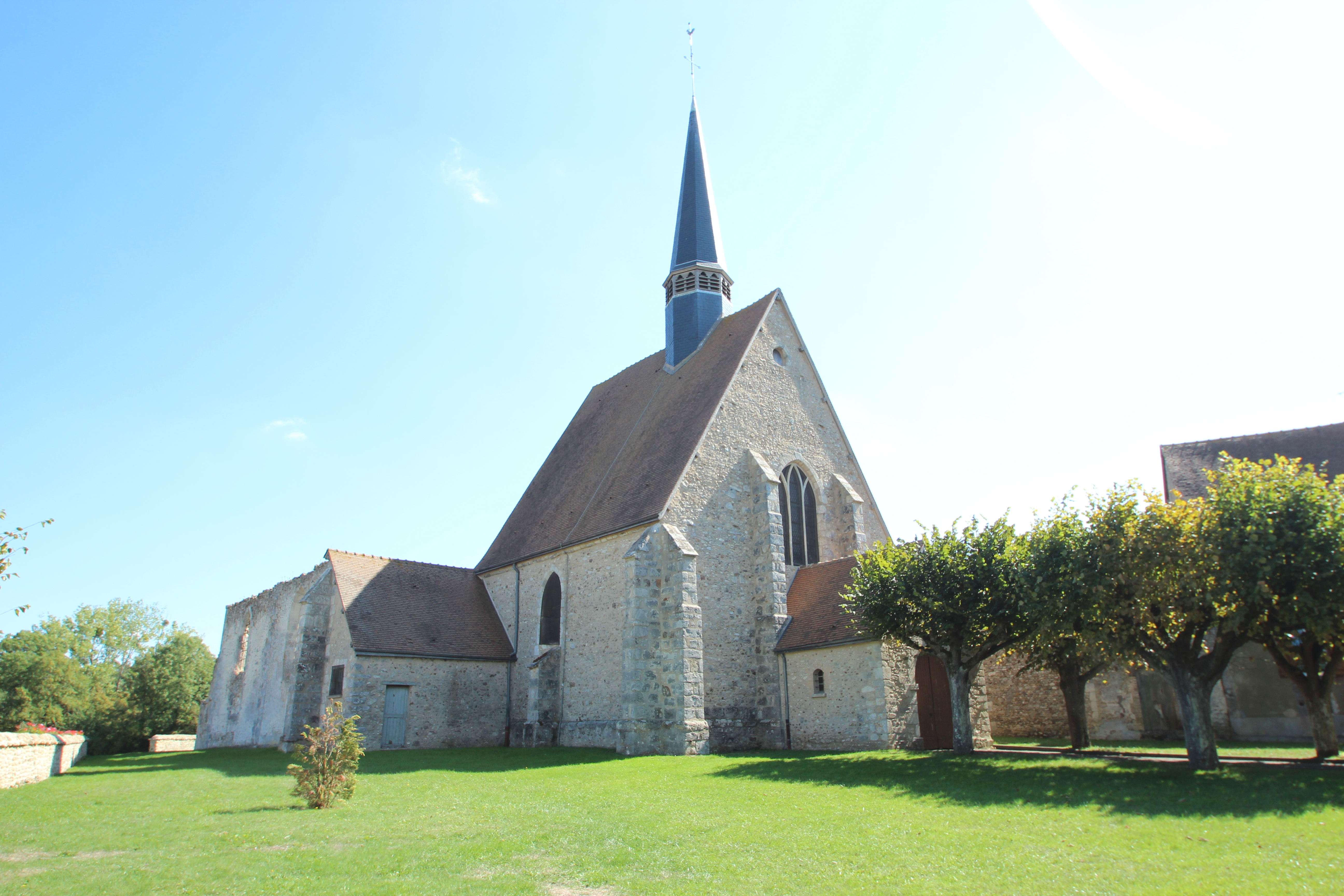 Church of St. Peter and St. Paul of Armenonville in Bailleau-Armenonville, France. Object location48° 31′ 54.34″ N, 1° 39′ 13.2″ E .